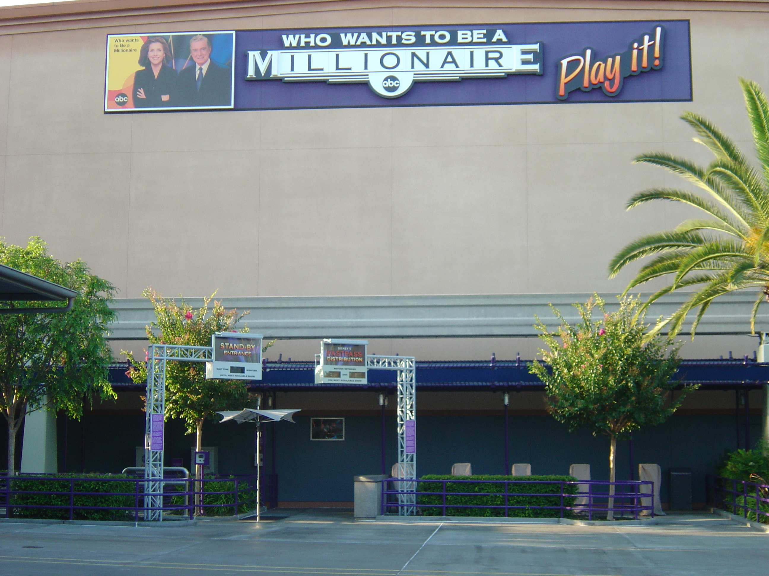 Sound Stage 17 of the Disney-MGM Studios (now Disney's Hollywood Studios) as it appeared when the Who Wants to Be a Millionaire - Play It! attraction was taking up residence there. Picture taken shortly after the attraction's August 2004 closure.